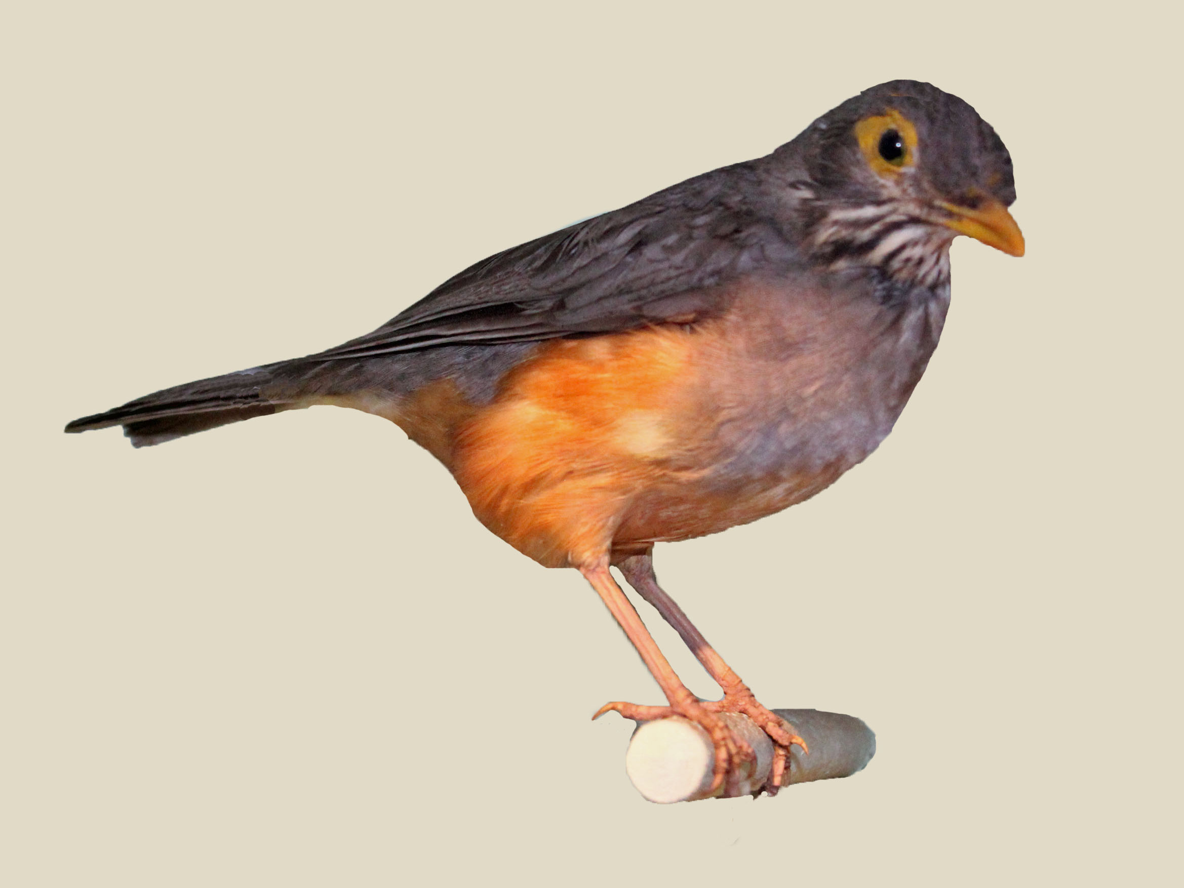 African Bare-eyed Thrush (Turdus tephronotus). Photograph of a specimen at Nairobi National Museum in Nairobi, Kenya.